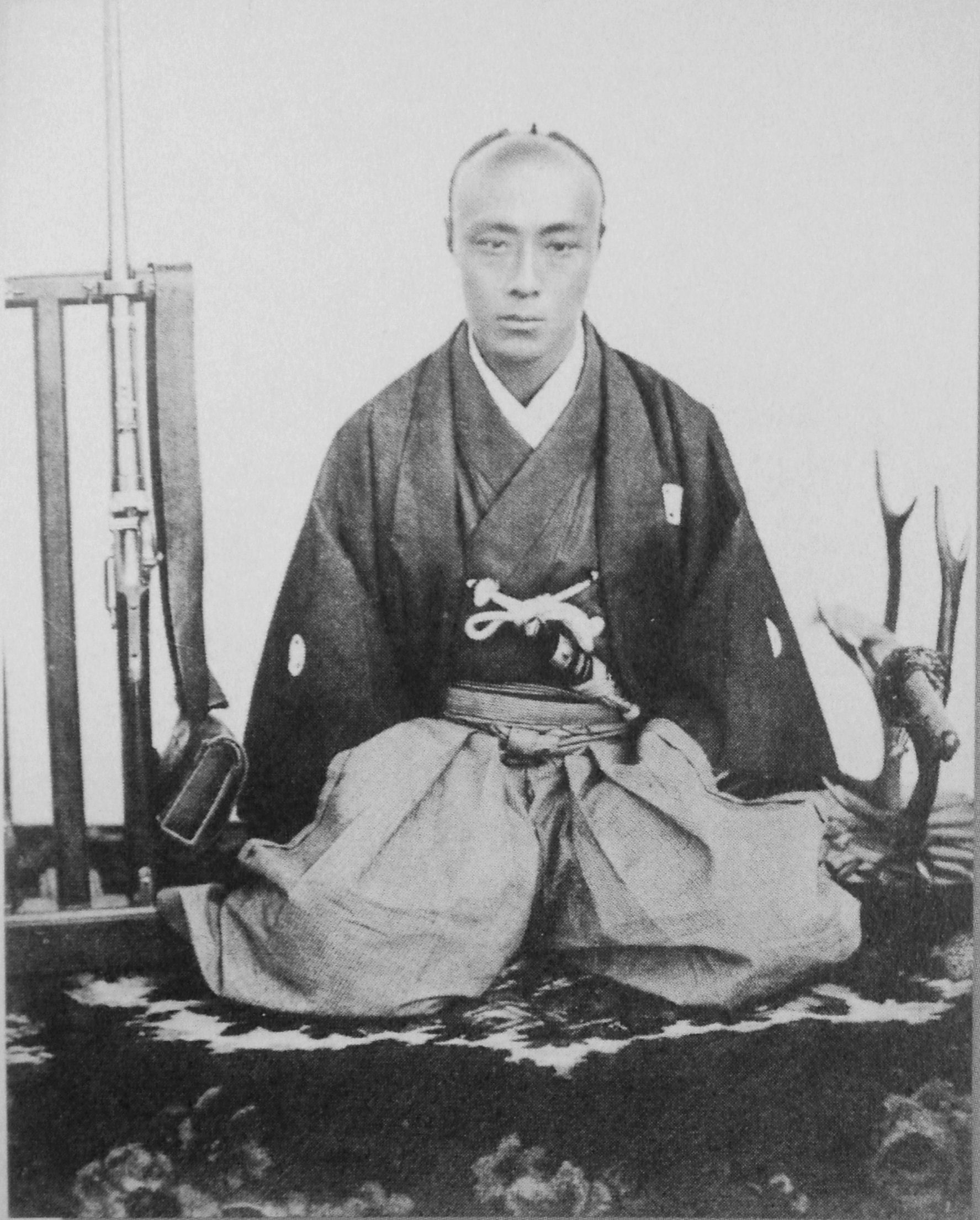 Tokugawa Yoshinobu with rifle